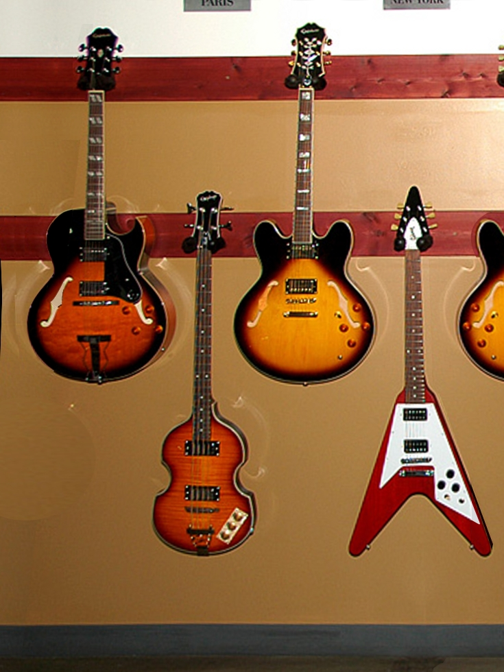 Gibson Guitar Center Showroom, Austin, Texas Epiphone ES-175 Epiphone Viola bass Epiphone Sheraton Gibson Flying V At the Austin Cocktail Throwdown 2009